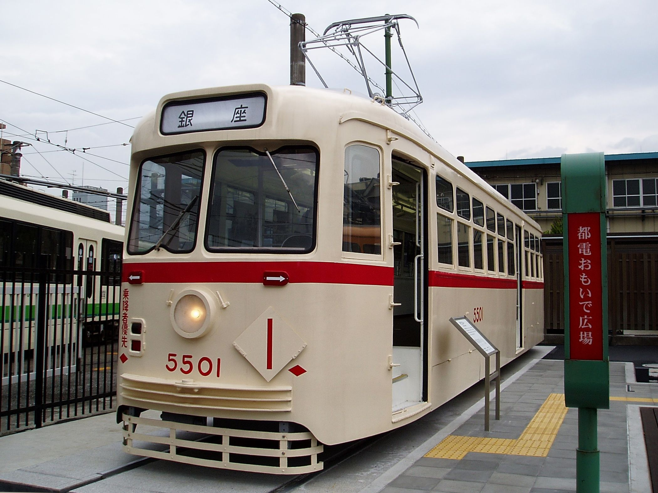 Tokyo Metropolitan Bureau type 5500.